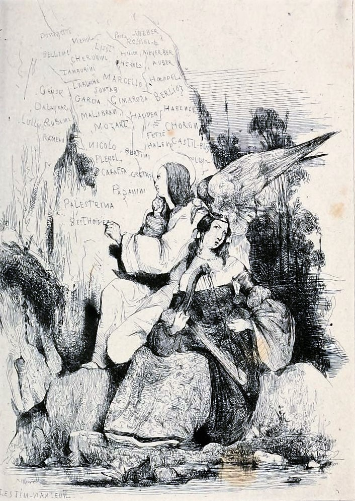 Frontispiece to Le balcon de l'opéra by Joseph d'Ortigue (1802-1866)